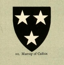 Coat of Arms of the Murry of Culbin family